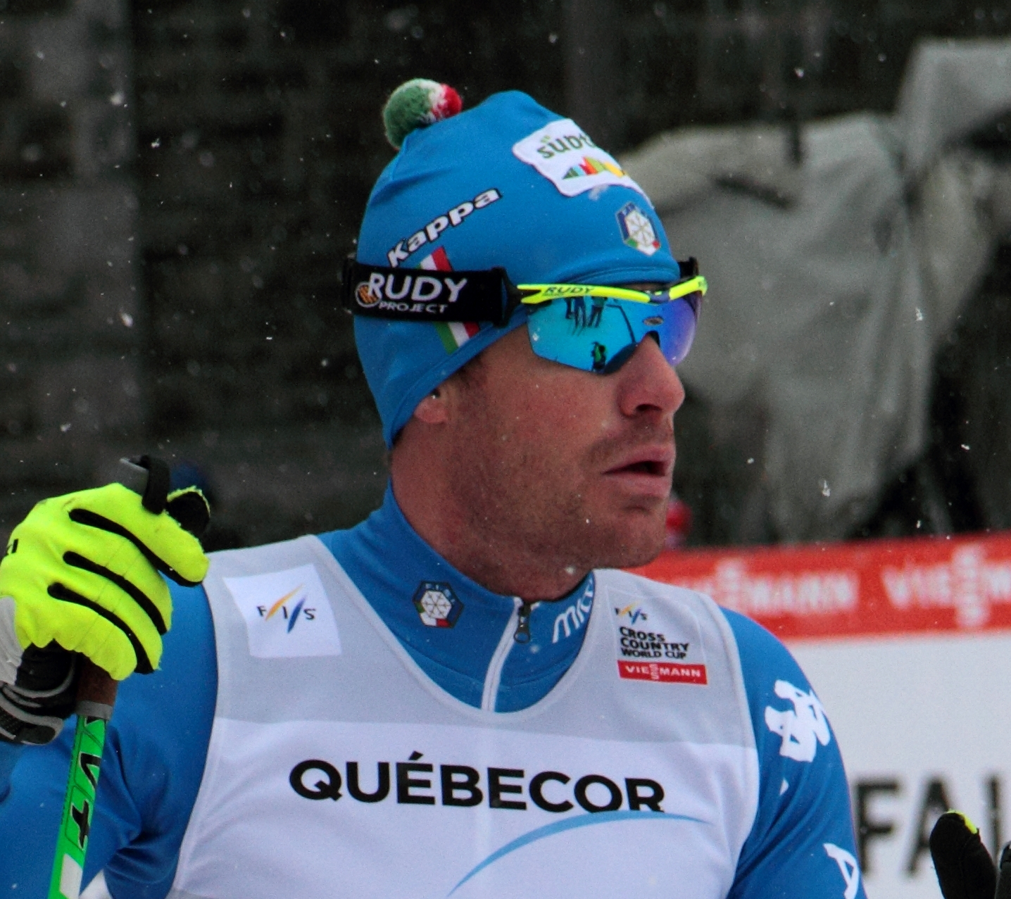 David Hofer, FIS Cross-Country World Cup 2012, Quebec, Canada.